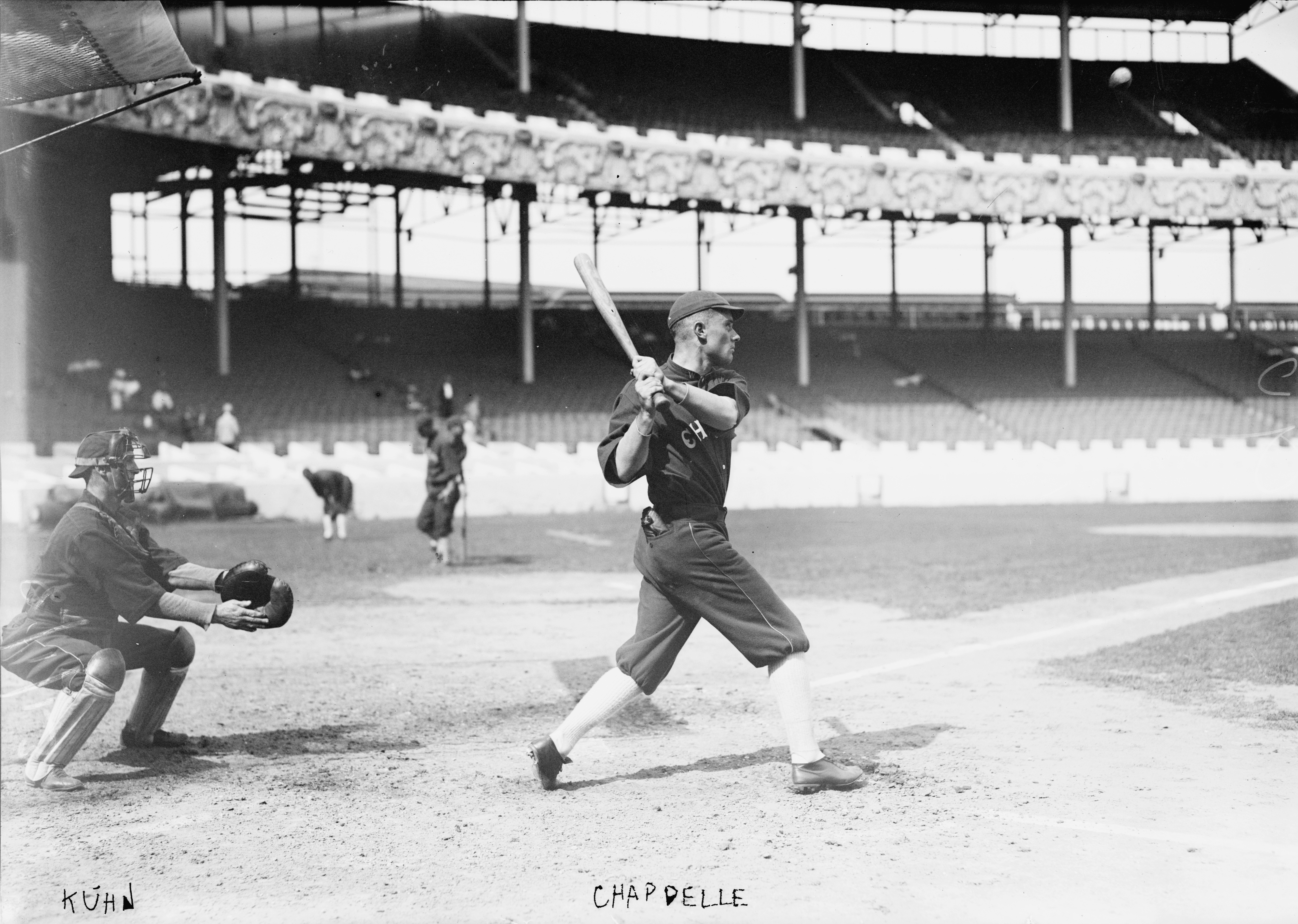 Major League Baseball players Larry Chappell and Walt Kuhn of the Chicago White Sox. Chappell is batting, and Kuhn is catching.